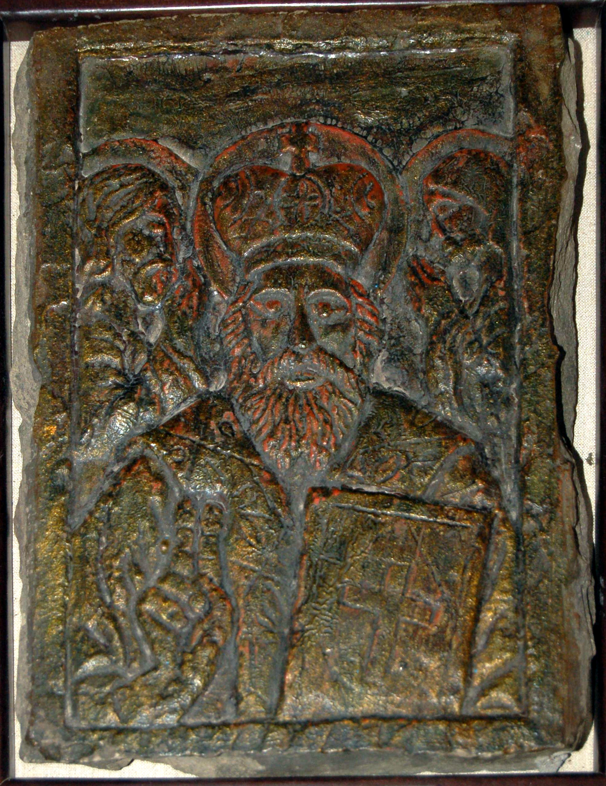 St. Nicholas. Btw.12-15cc.